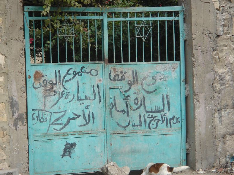 The current policy of the impoverished Jewish community in Cairo is that visitors should pay a contribution of 100 Egyptian pounds (for the upkeep of the community) to visit the forlorn Jewish cemetery in Bassatine, the cemetery quarter of Cairo. Wording roughly translates as: "Do not park your car in front of the door - no inconvenience".